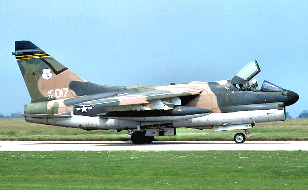 146th Tactical Fighter Squadron A-7D-9-CV Corsair II 70-1017 1972: Aircraft delivered to 354th Tactical Fighter Wing/355th TFS, Myrtle Beach AFB, SC (c/n D-163) Transferred to 157th Tactical Fighter Squadron, SC Air National Guard, 1977 Transferred to 146th Tactical Fighter Squadron, PA Air National Guard, 1983 Transferred to AMARC as AE0015 Sep 21, 1990 Disposition:17-APR-98 / To Fritz Enterprises, Taylor, MI. (Actually to HVF West yard, Tucson). Scrapped.